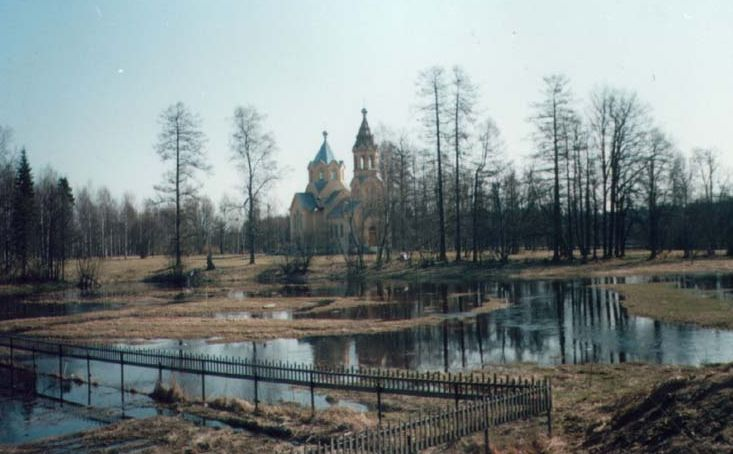 River Lustovka. Overflow